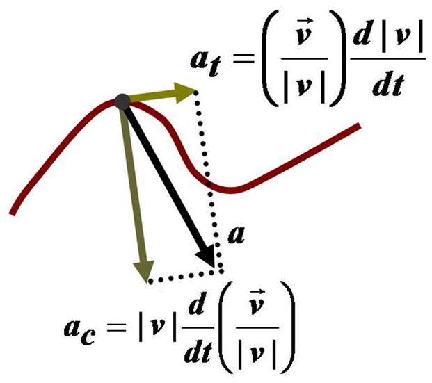 Components of acceleration vector for planar curve